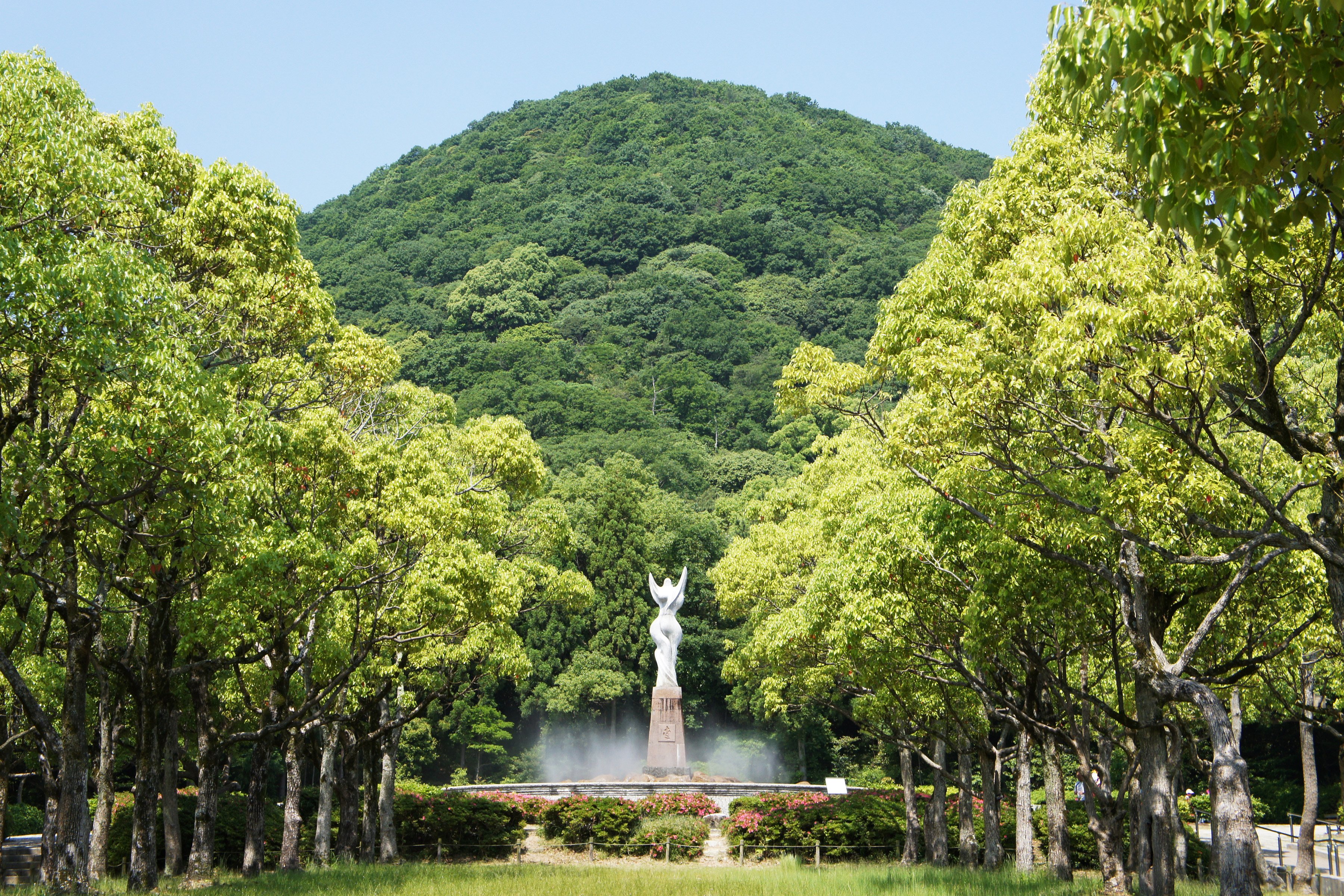 Hyogo prefectural Kabutoyama Forest Park in Nishinomiya, Hyogo prefecture, Japan